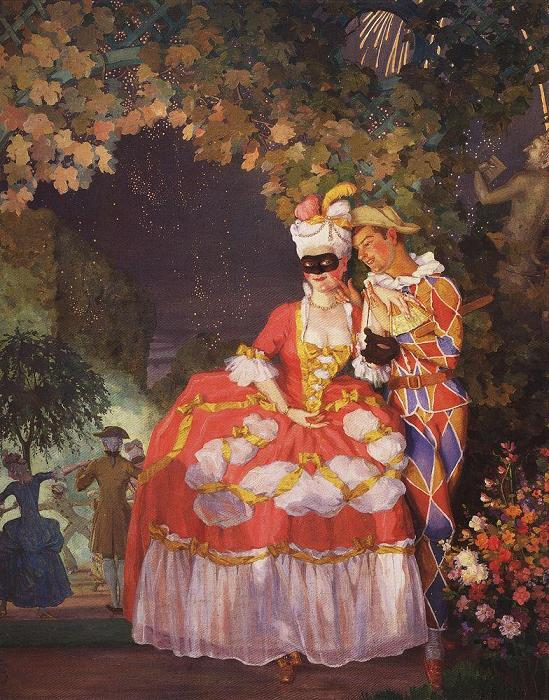 At Russian Museum, Saint Petersburg.